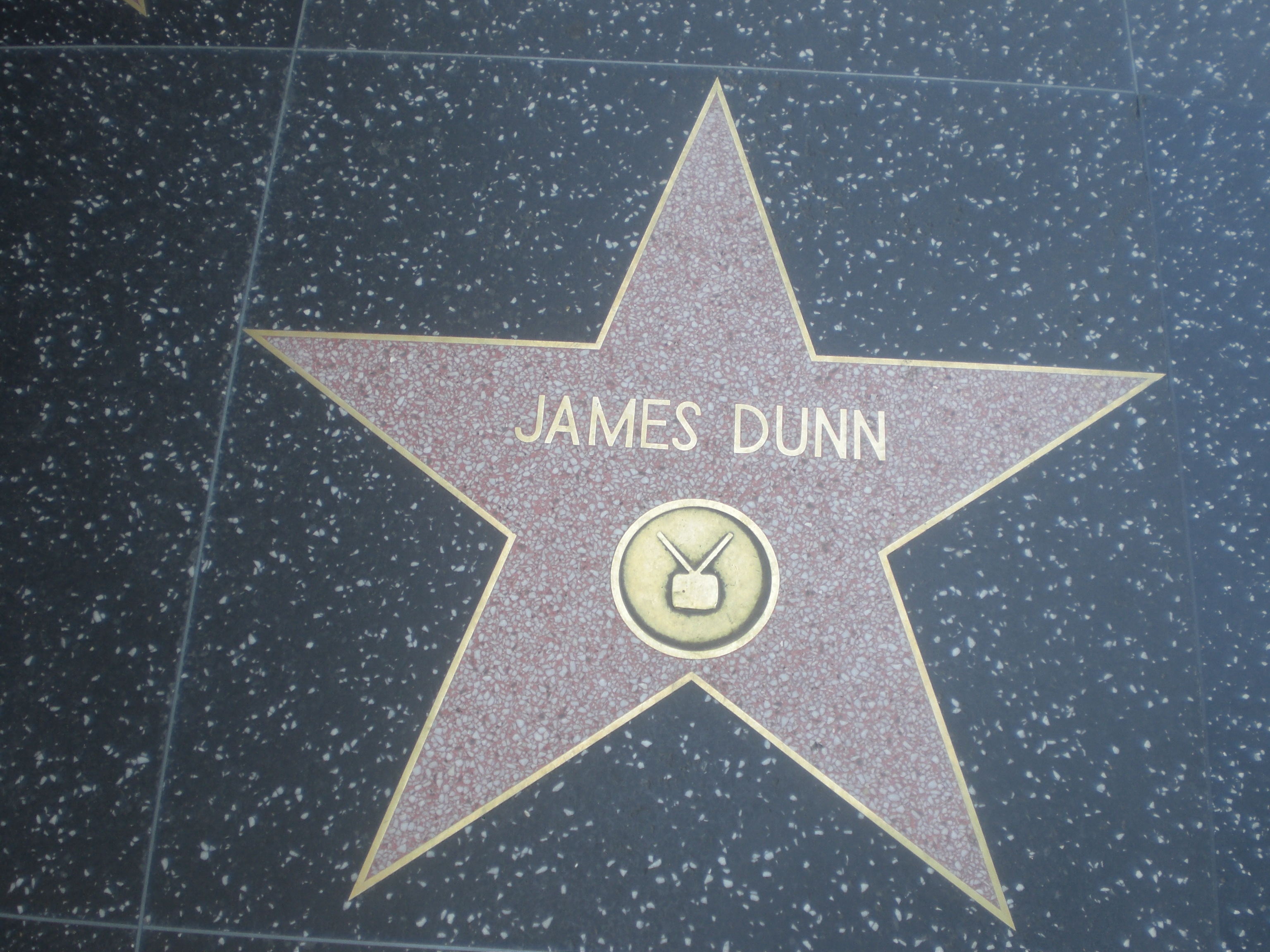 James Dunn's star on the Hollywood Walk of Fame